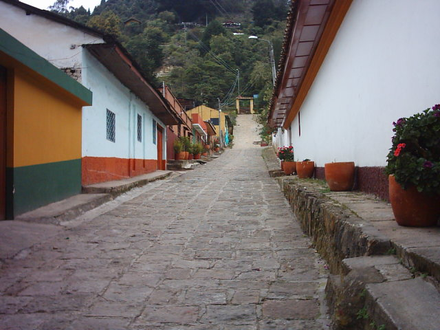 A street of Zipacon